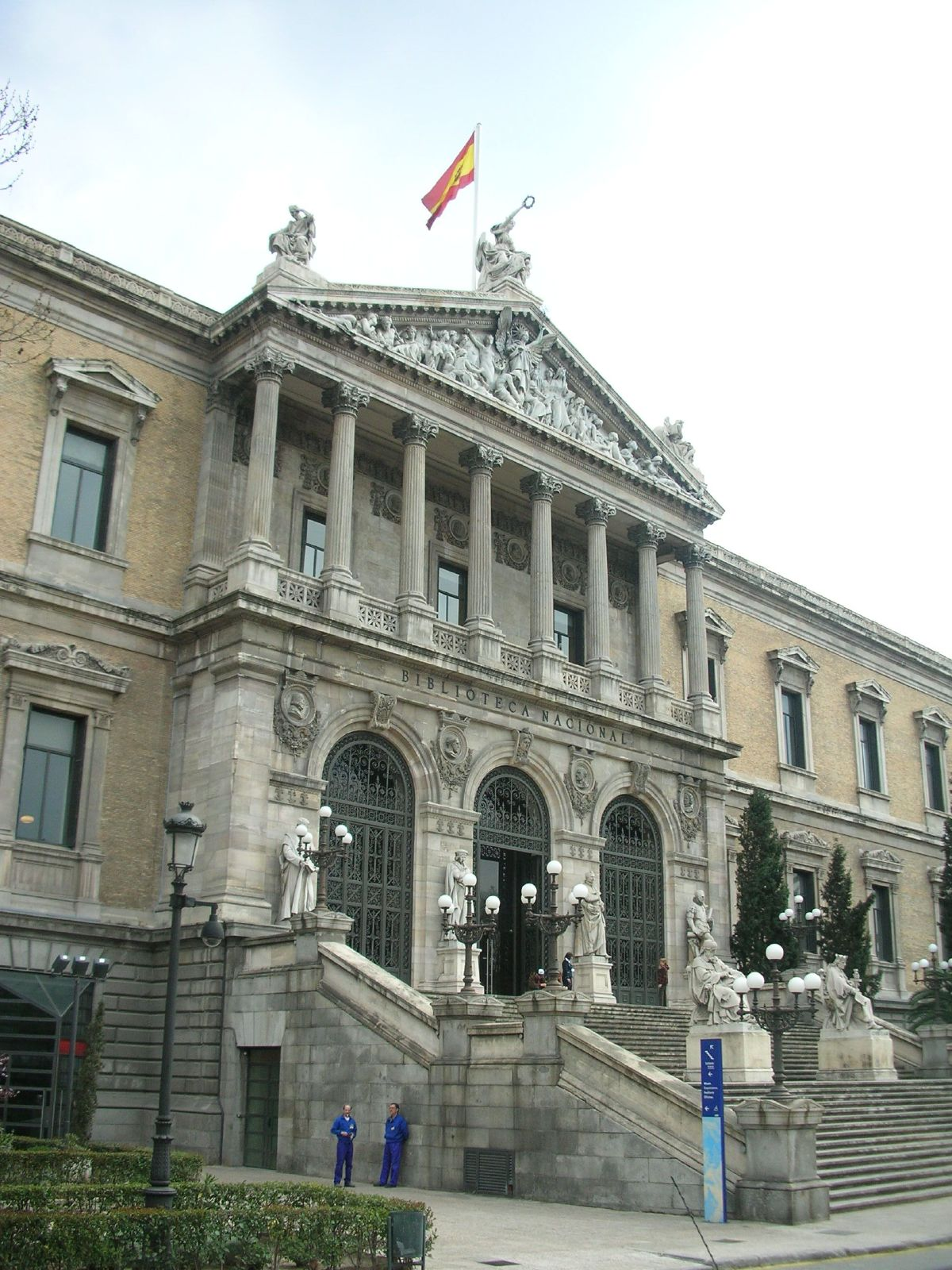 Façade of the National Library of Spain (Madrid). Building projected by architect Francisco Jareño (1818–1892) and constructed between 1866 and 1892.